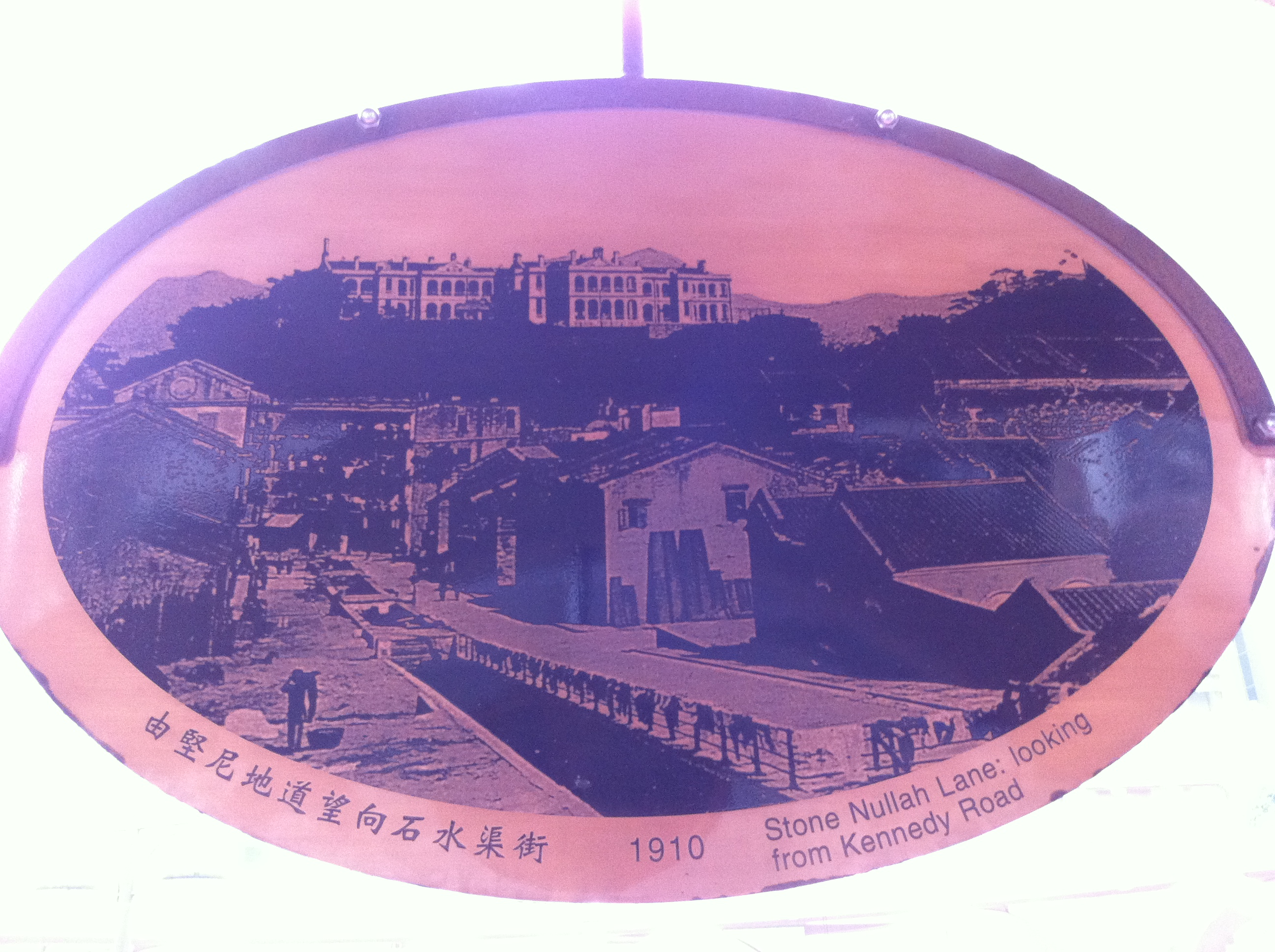 灣仔區 歷史圖片